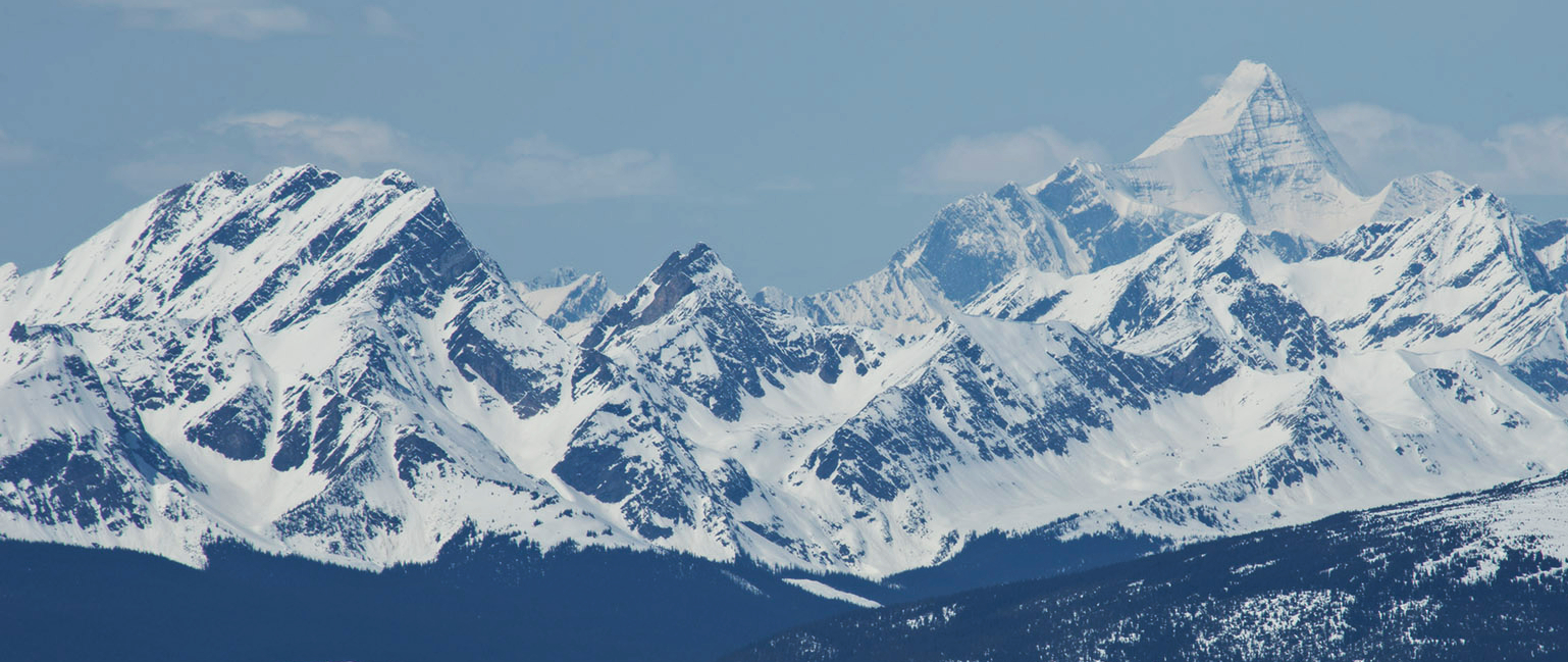 Caledonia Mountain and Mount Robson seen from The Whistlers